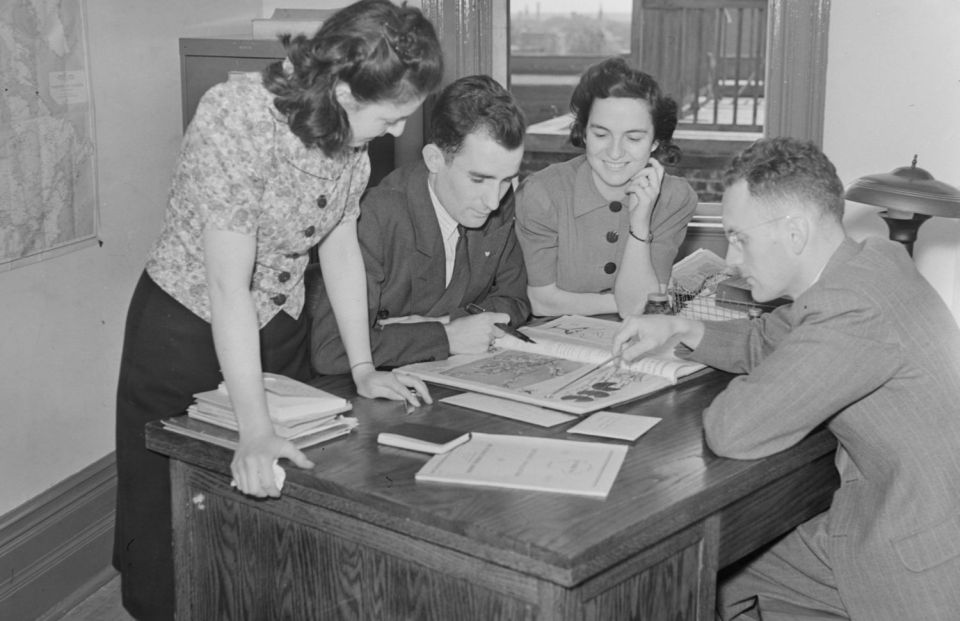 Suzanne Cloutier, Gérard Pelletier, Alec Leduc and Robert Letendre gathered at the headquarters of the Young Catholic Students (YCS) located at 430 Sherbrooke Street in Montreal. They are all members of the board of that association.